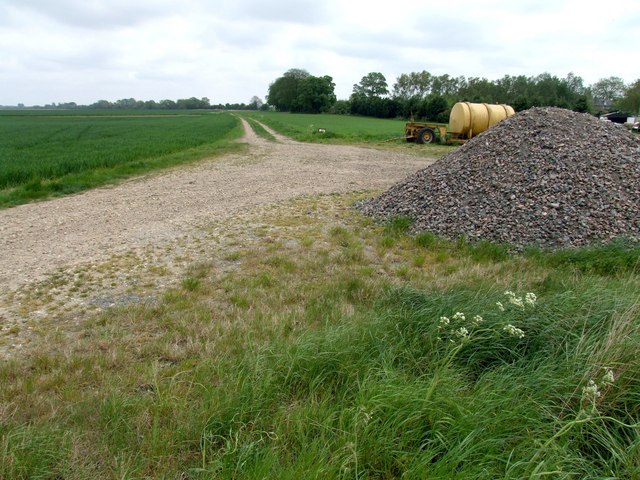 Former Railway, Langrick The track marks the route of the former Lincoln to Boston Railway. The route followed the River Witham all the way.